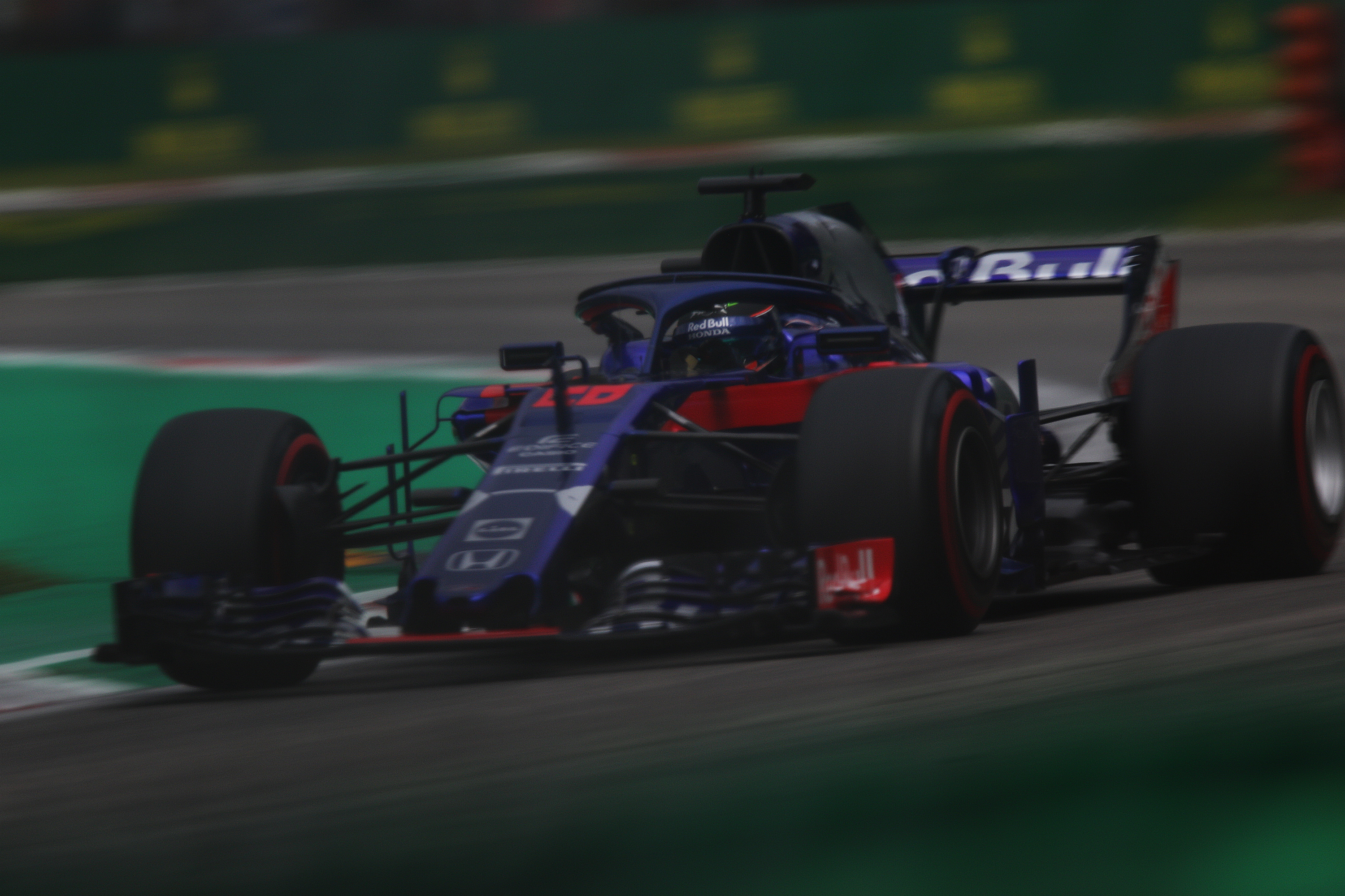 2018 Italian Grand Prix.